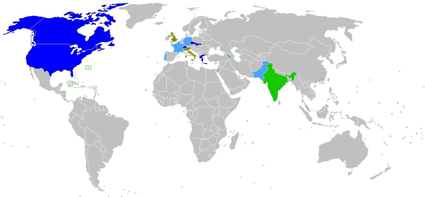 2013 World Ball Hockey Championship participants A Pool teams with women's team A Pool teams without women's team B Pool teams with women's team B Pool teams without women's team